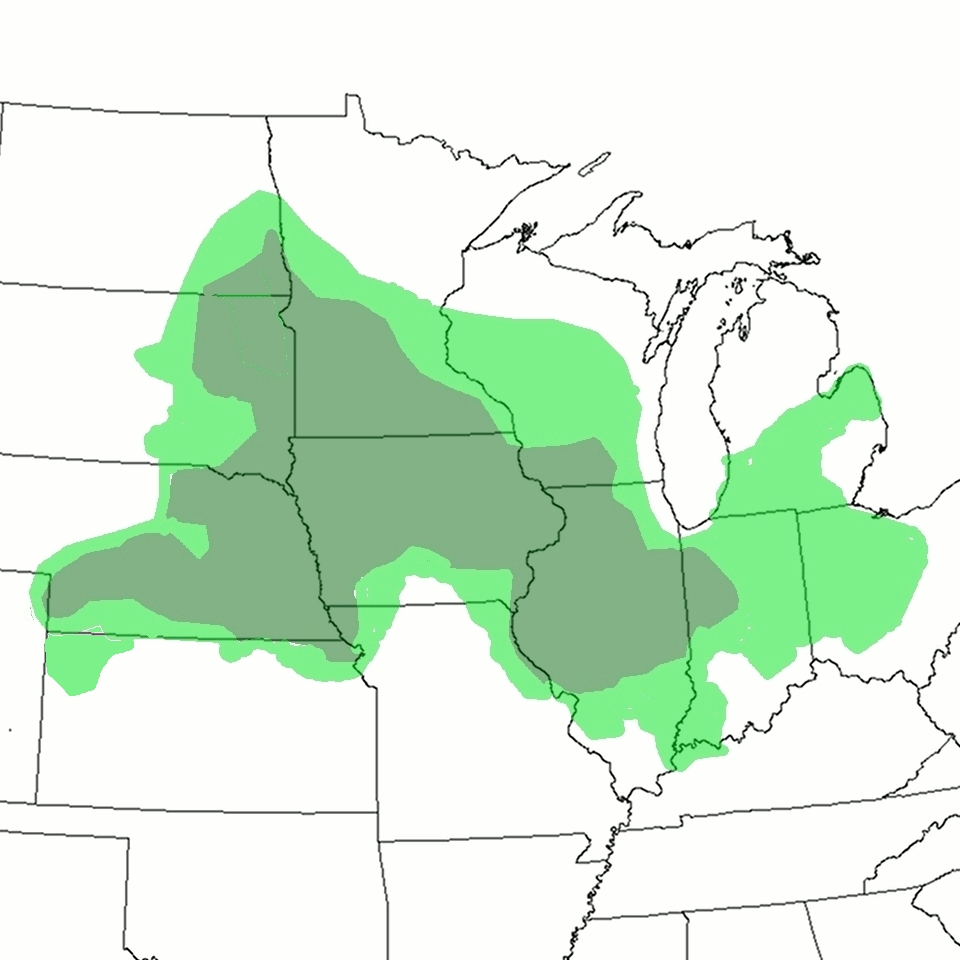 Corn belt in midwestern USA